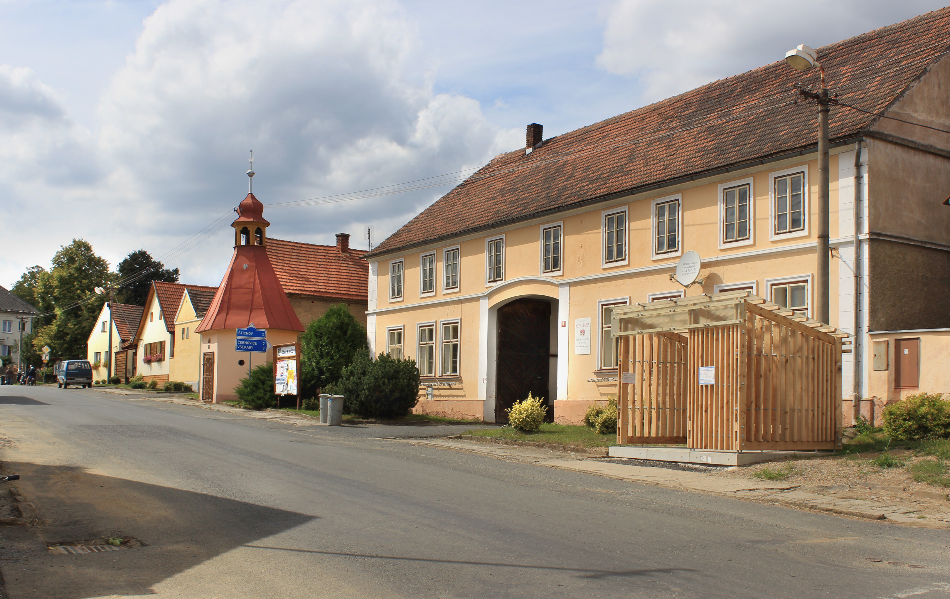 Common in Kvíčovice, Czech Republic.